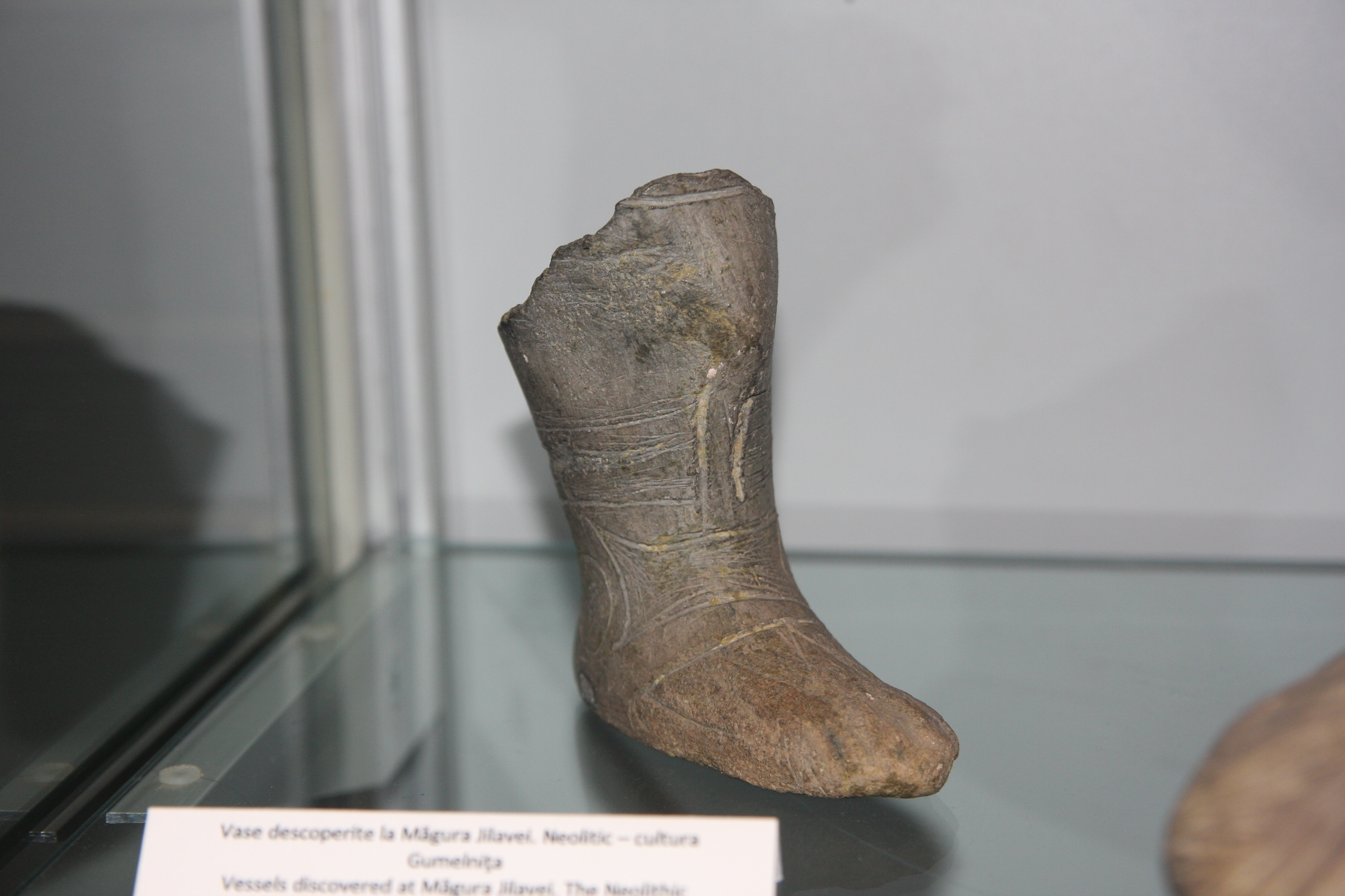 eneolithic foot exposed in Bucharest Museum